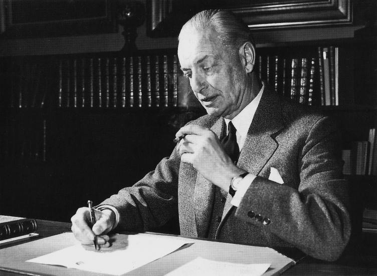 Photograph of the Finnish publisher Heikki Reenpää (1896–1959) at work in Otava publishing house.